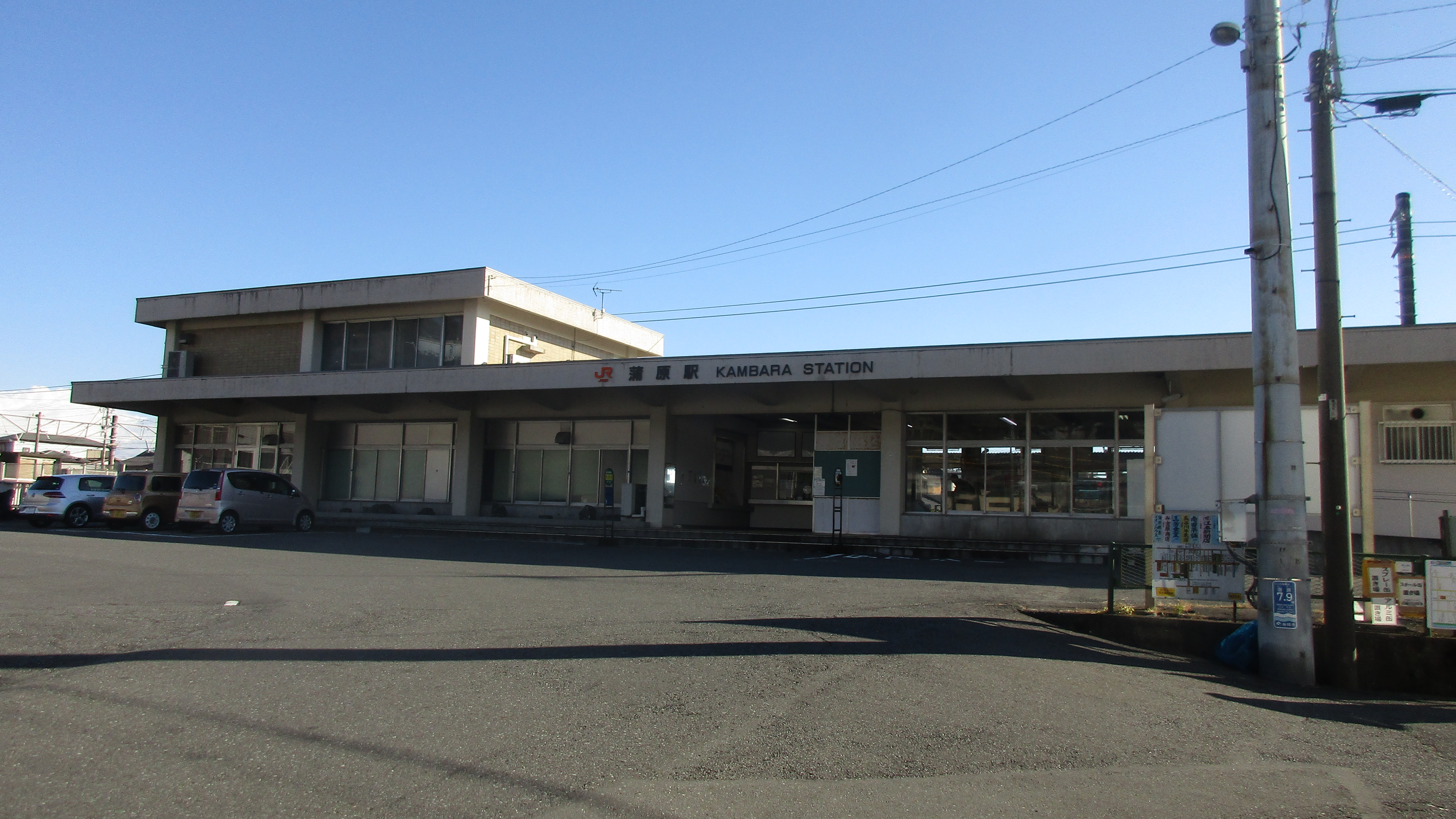 JR東海道本線 蒲原駅舎